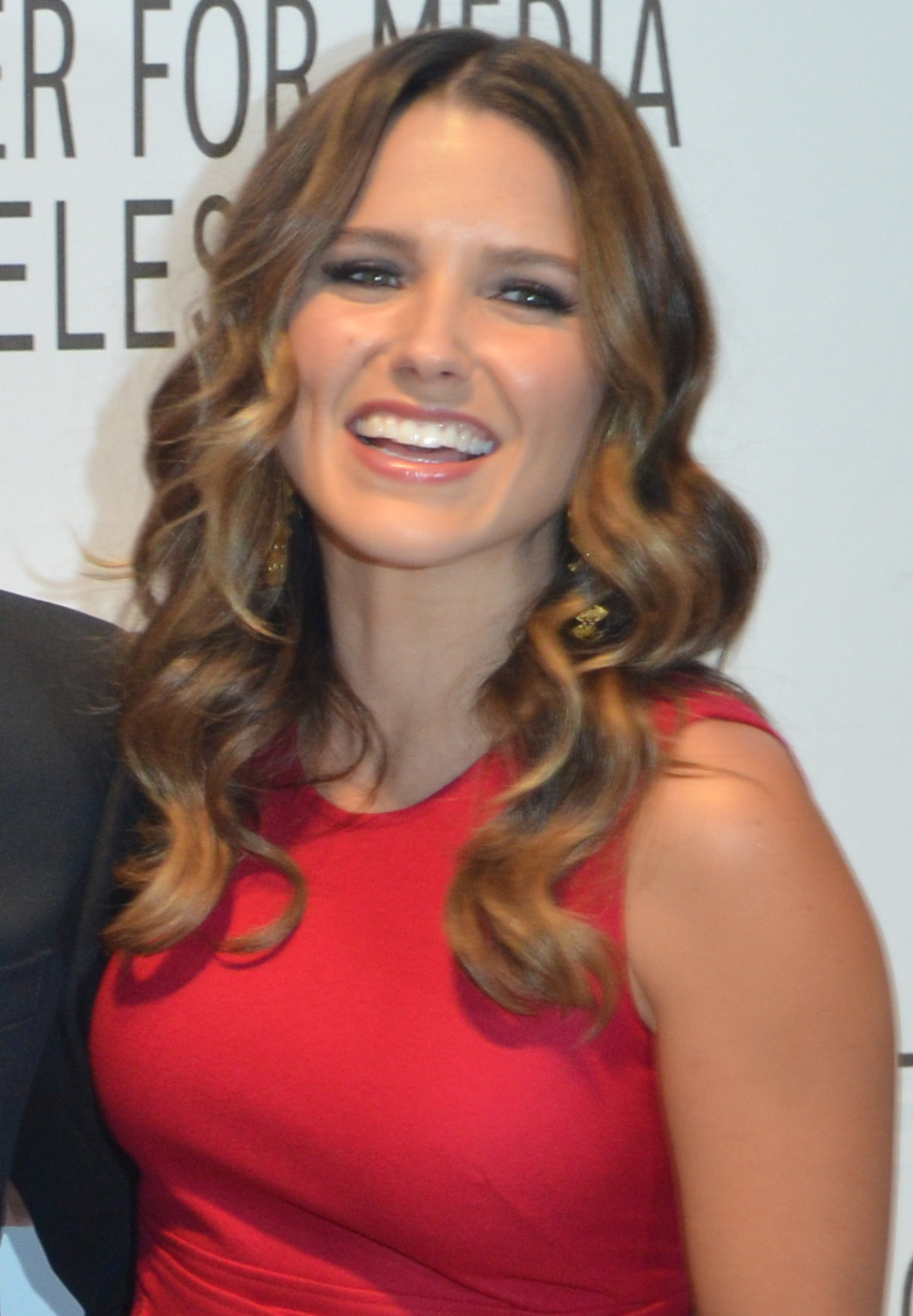 Sophia Bush at the 2012 PaleyFest: Fall TV CBS Preview Party.